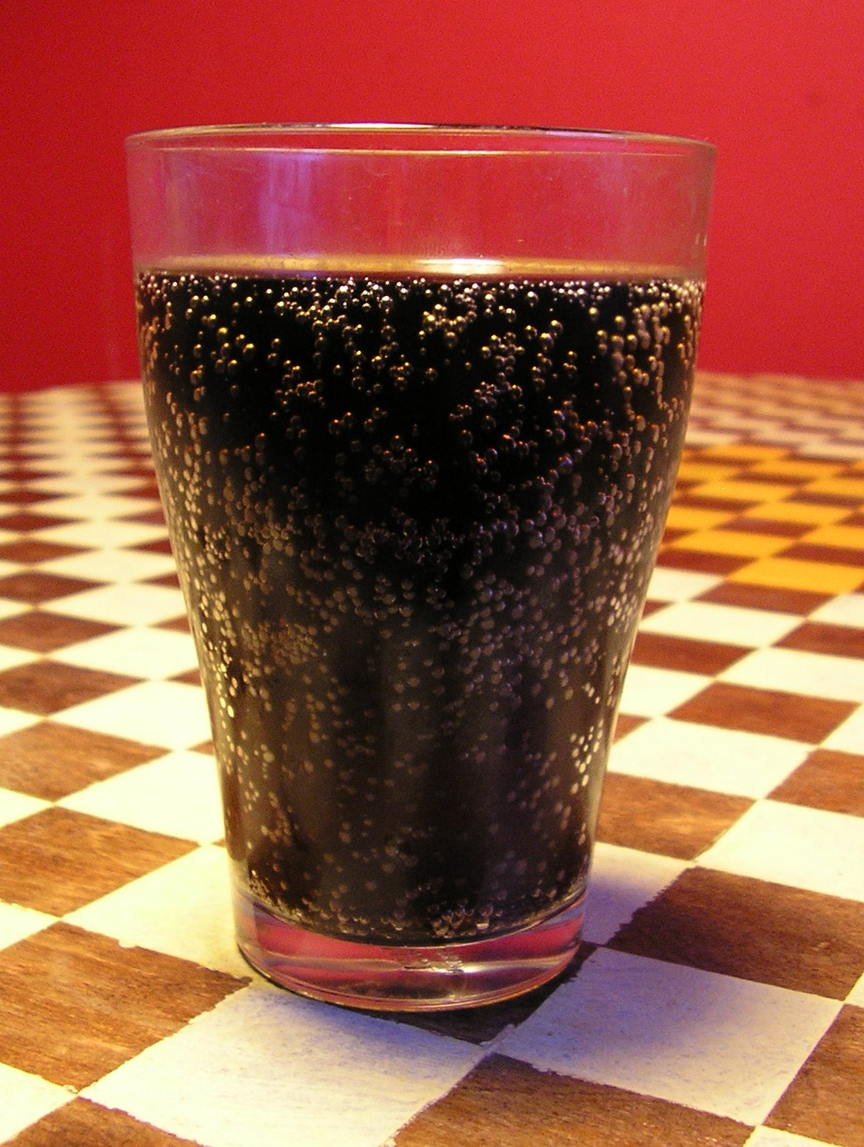 A glass of commercially made kvass (Latvian Lauku Kvass to be exact).